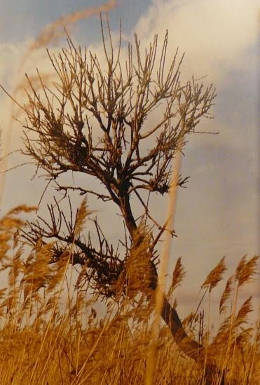 The Szachty lakes in Rudnicze (district of Poznan).